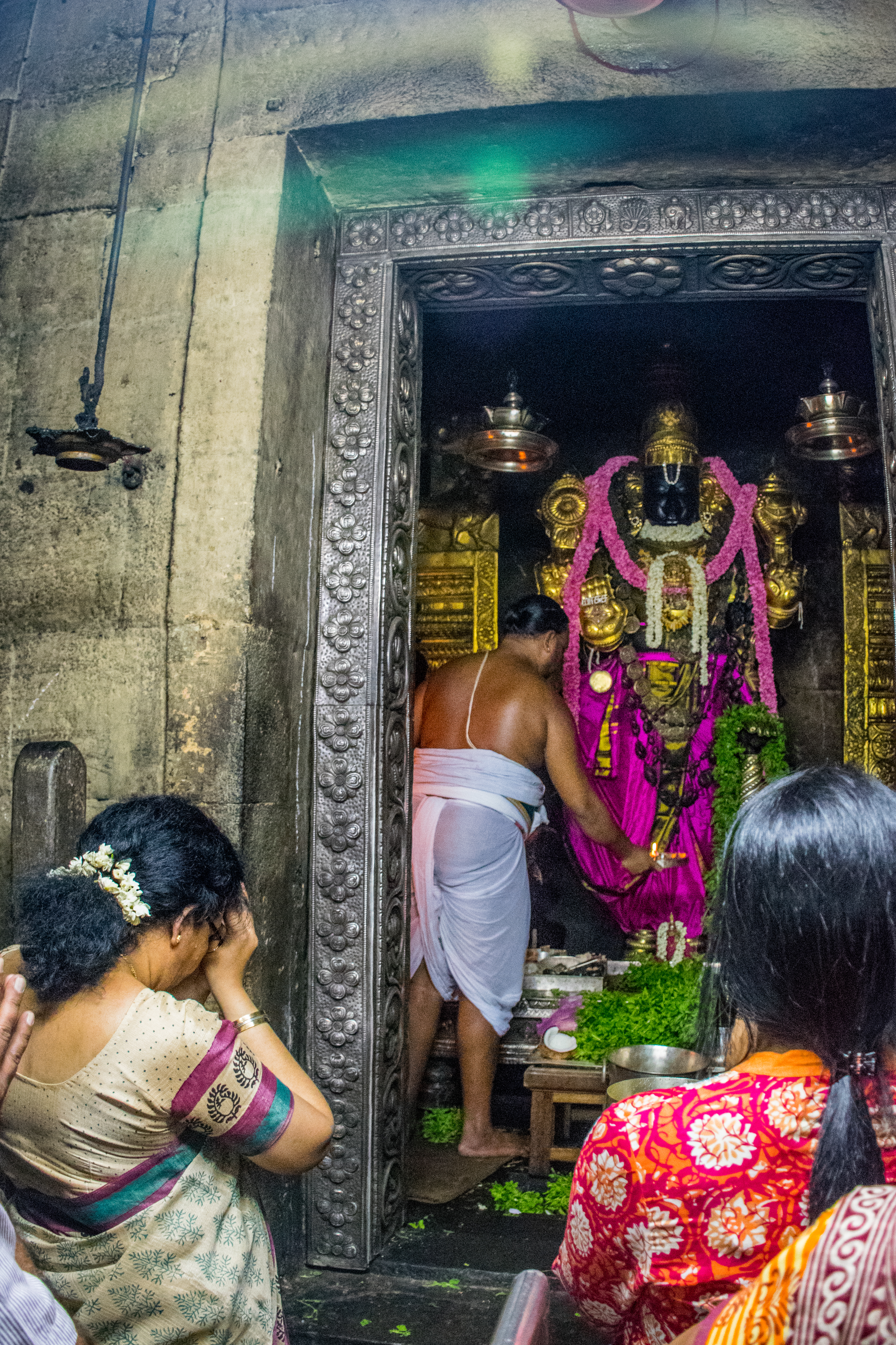 Devotees during Bhramotsavam at Varadharaja Perumal Temple